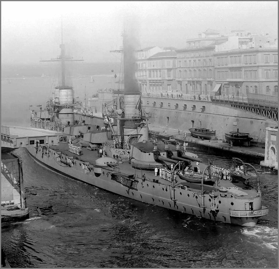 Italian battleship Dante Alighieri passes the Ponte Girevole swing bridge at Taranto, 1918.